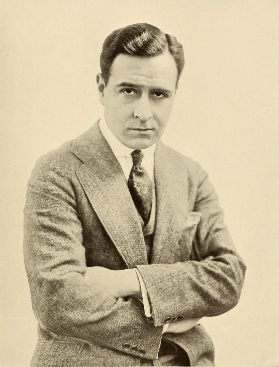 Conway Tearle. The Photo-Play Journal, April 1917.